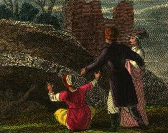 "Inhabitants of Mainarty hiding from the Belzoni party" from Fruits of Enterprise p64 or p66... by Giovanni Battista Belzoni. Picture of Sarah Belzoni - 1841 edition